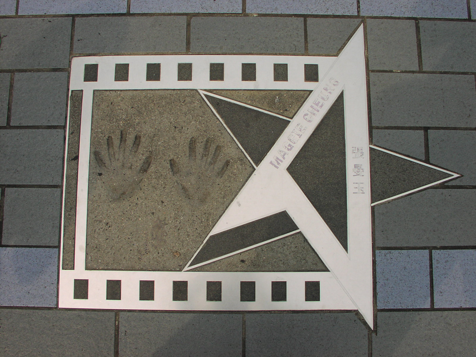 Avenue of Stars, Hong Kong